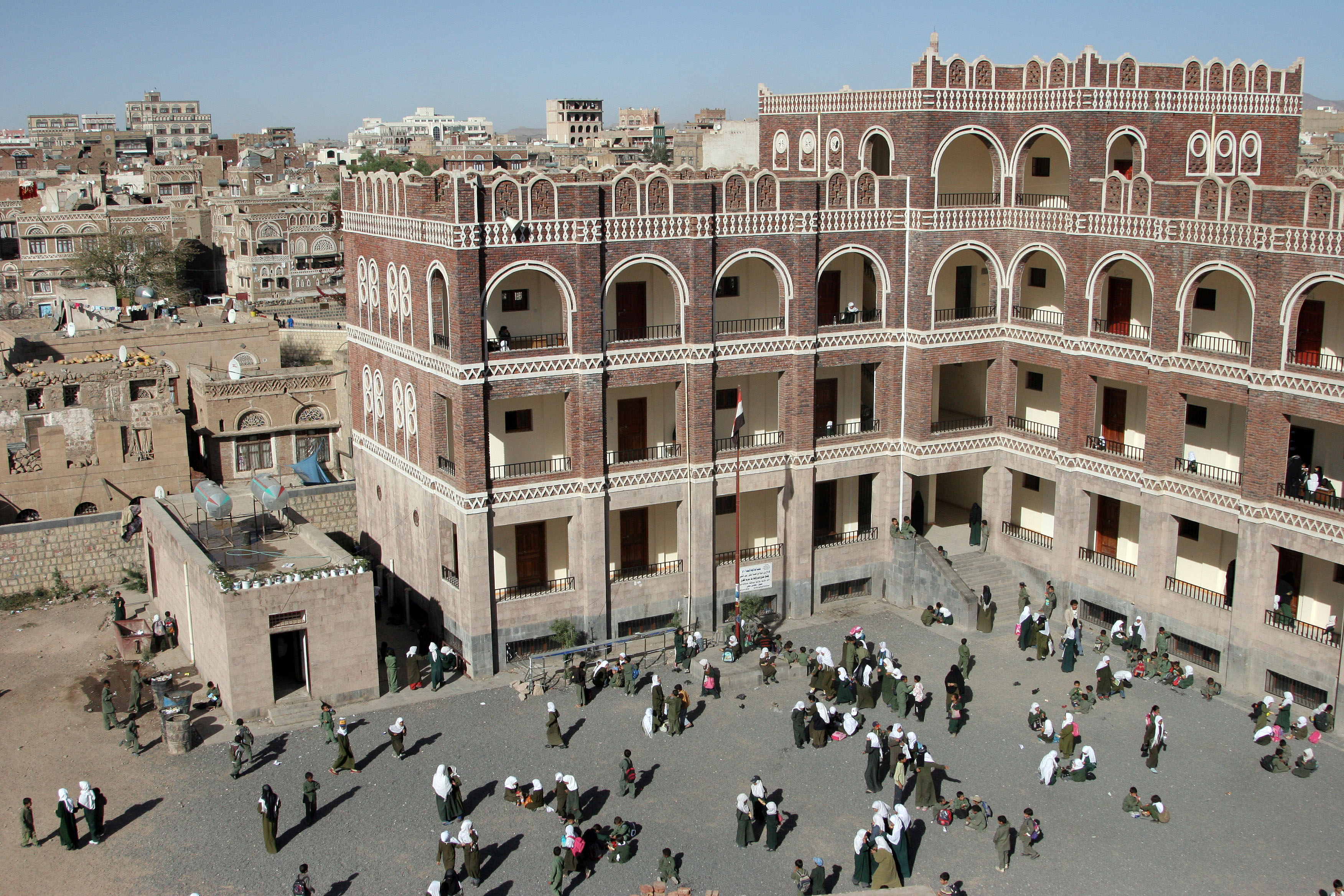 Attabari Elementary School is situated in the middle of the Old City of Sana'a, Yemen, a UNESCO World Heritage site. It was built according to the traditional Sana'ani style in keeping with the surrounding buildings.